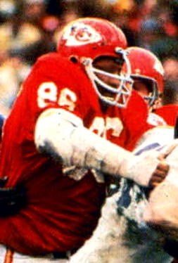 Kansas City Chiefs defensive linemen Buck Buchanantackling Minnesota Vikings running back Dave Osborn (middle) in Super Bowl IV.